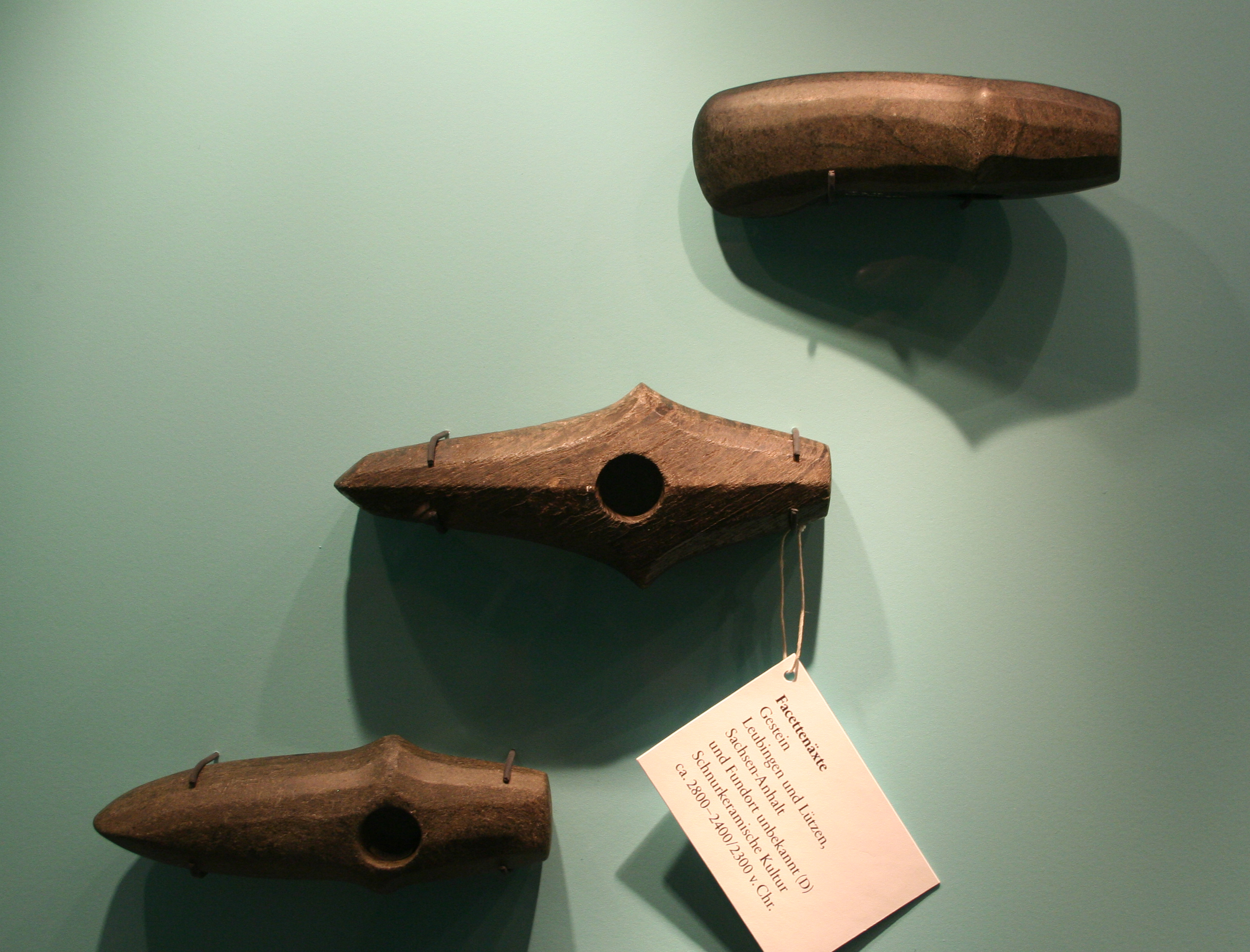 Museum für Vor- und Frühgeschichte (Museum of prehistory and early history), Berlin